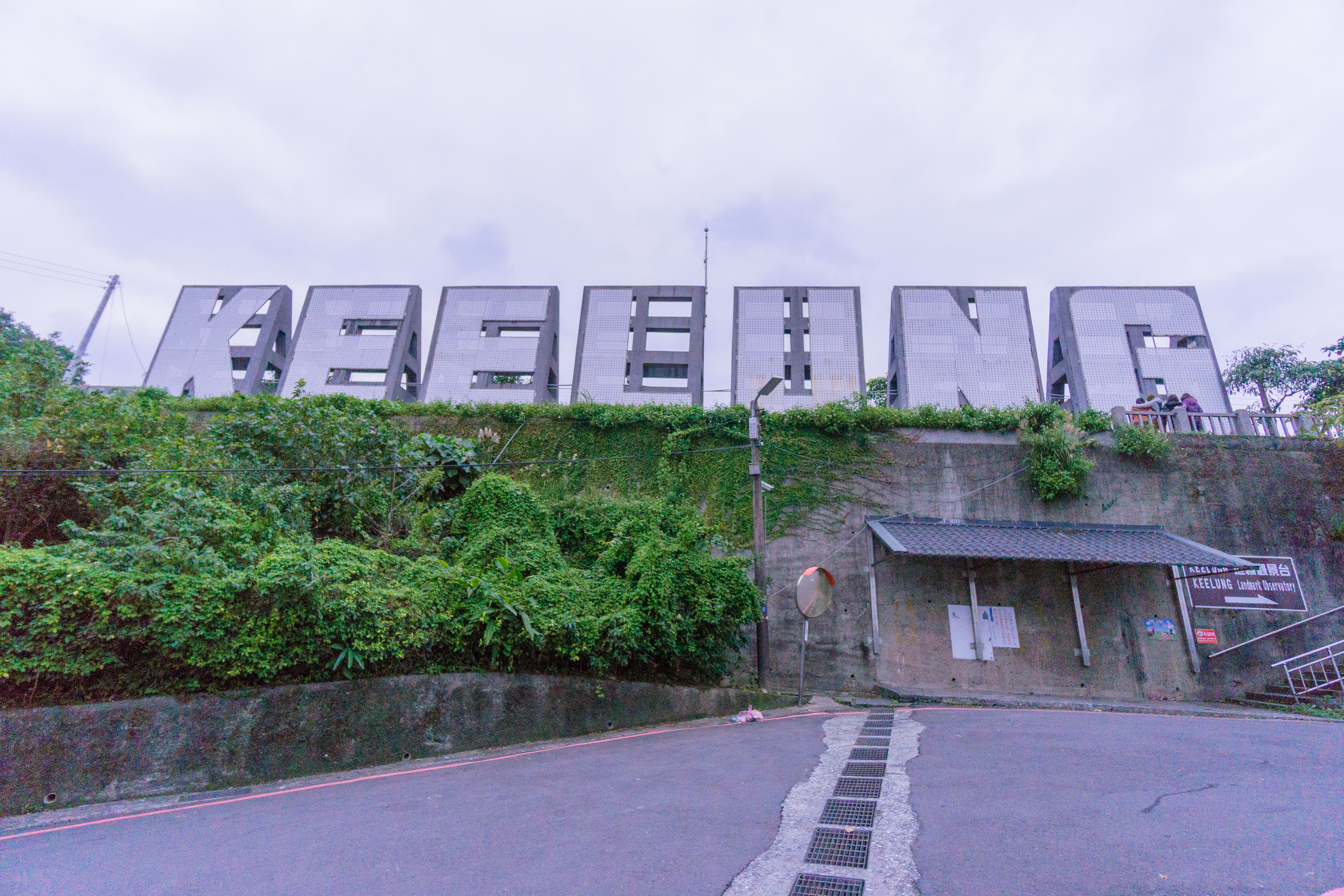 Keelung Landmark Observatory.